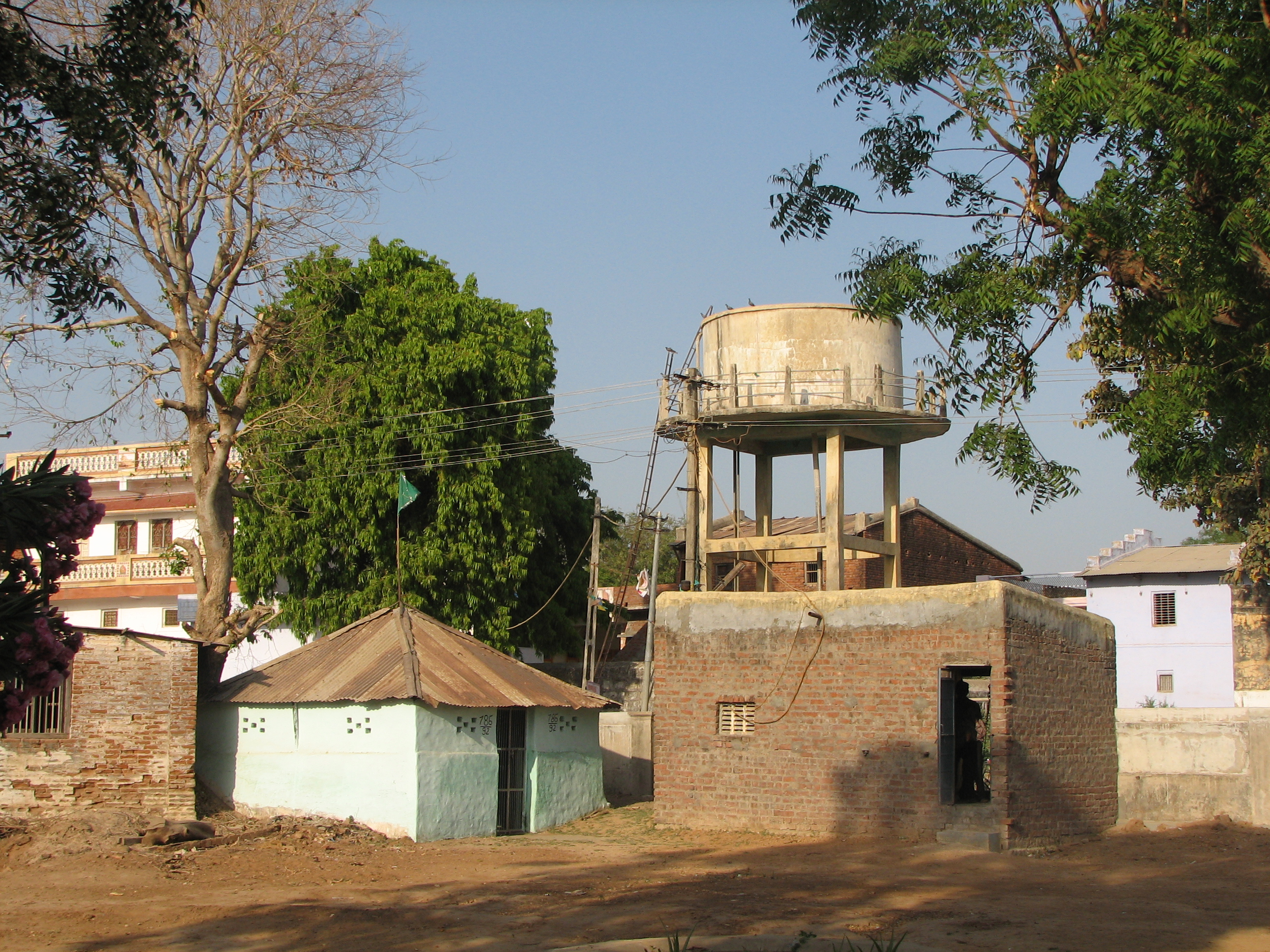 Varsoda